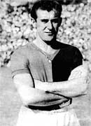 This is a photograph of Rene Pontoni taken during his time with Newell's Old Boys in Argentina. He played for the club between 1940 & 1944